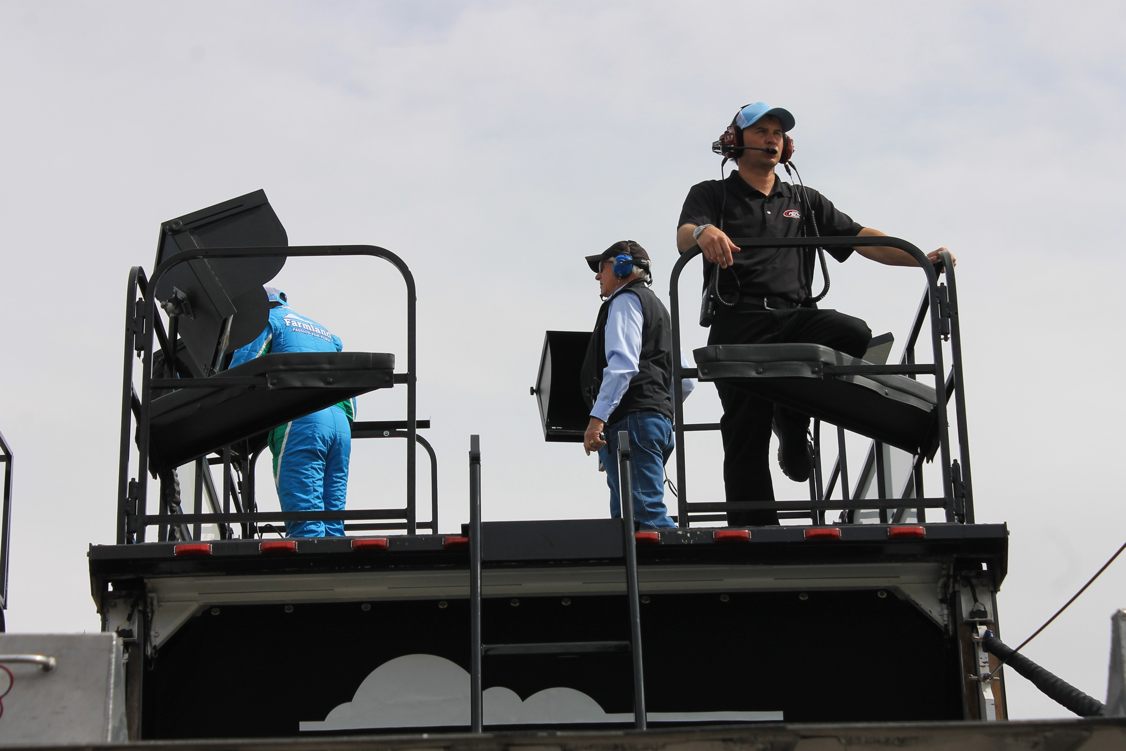 Trent Owens at Las Vegas Motor Speedway-March 2014 Photo Credit